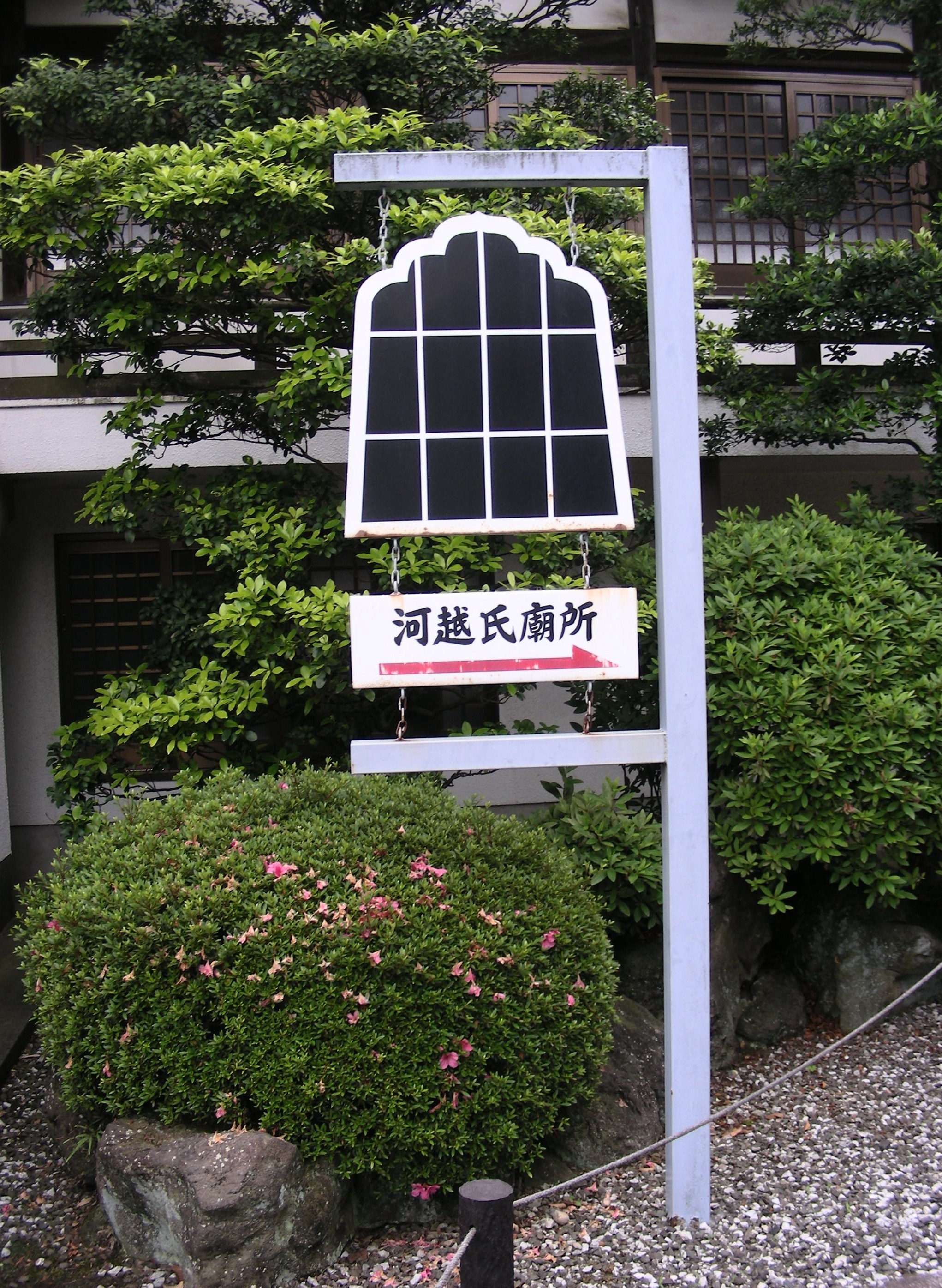 The Yojuin temple in Kawagoe City, Saitama Prefecture, Japan